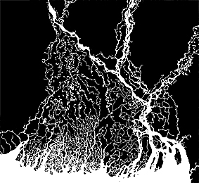 River channel distributories of the Ganges Delta, Bangladesh; an example of an arcuate delta - outline map